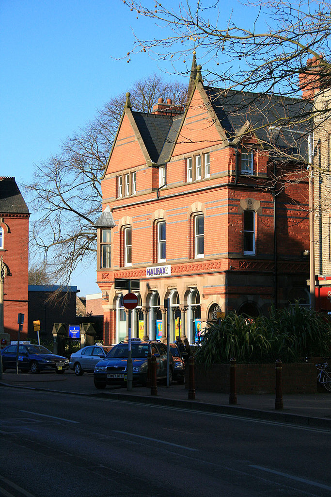 The Halifax, Long Eaton On Market Place, built in 1889 for Samuel Smith's Bank. The work of Watson Fothergill.